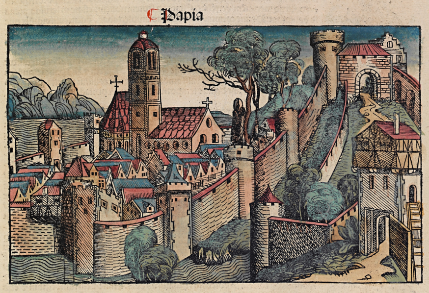 Woodcut from the Nuremberg Chronicle